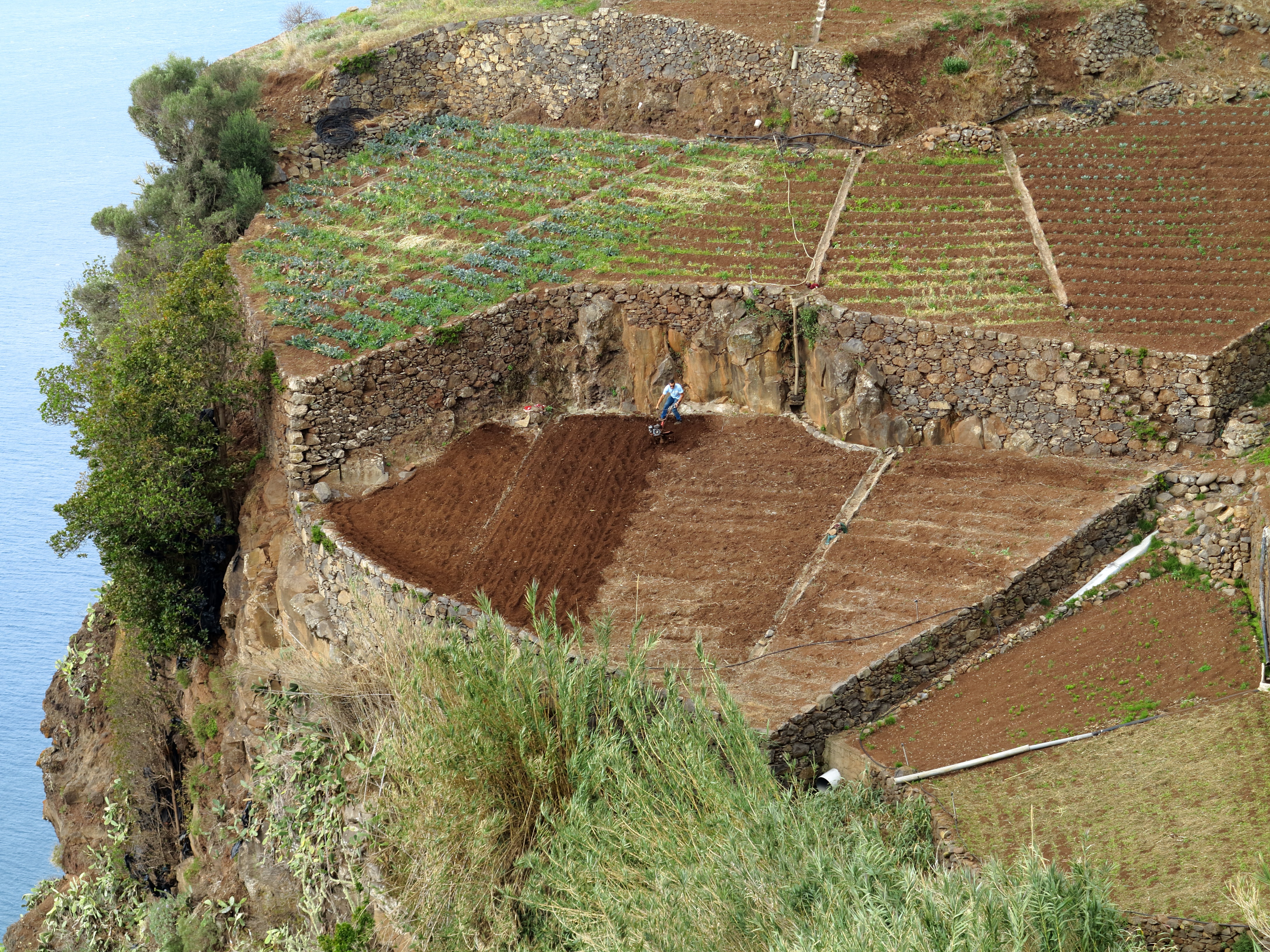 Agricultural terraces below the cliff at Cabo Girão